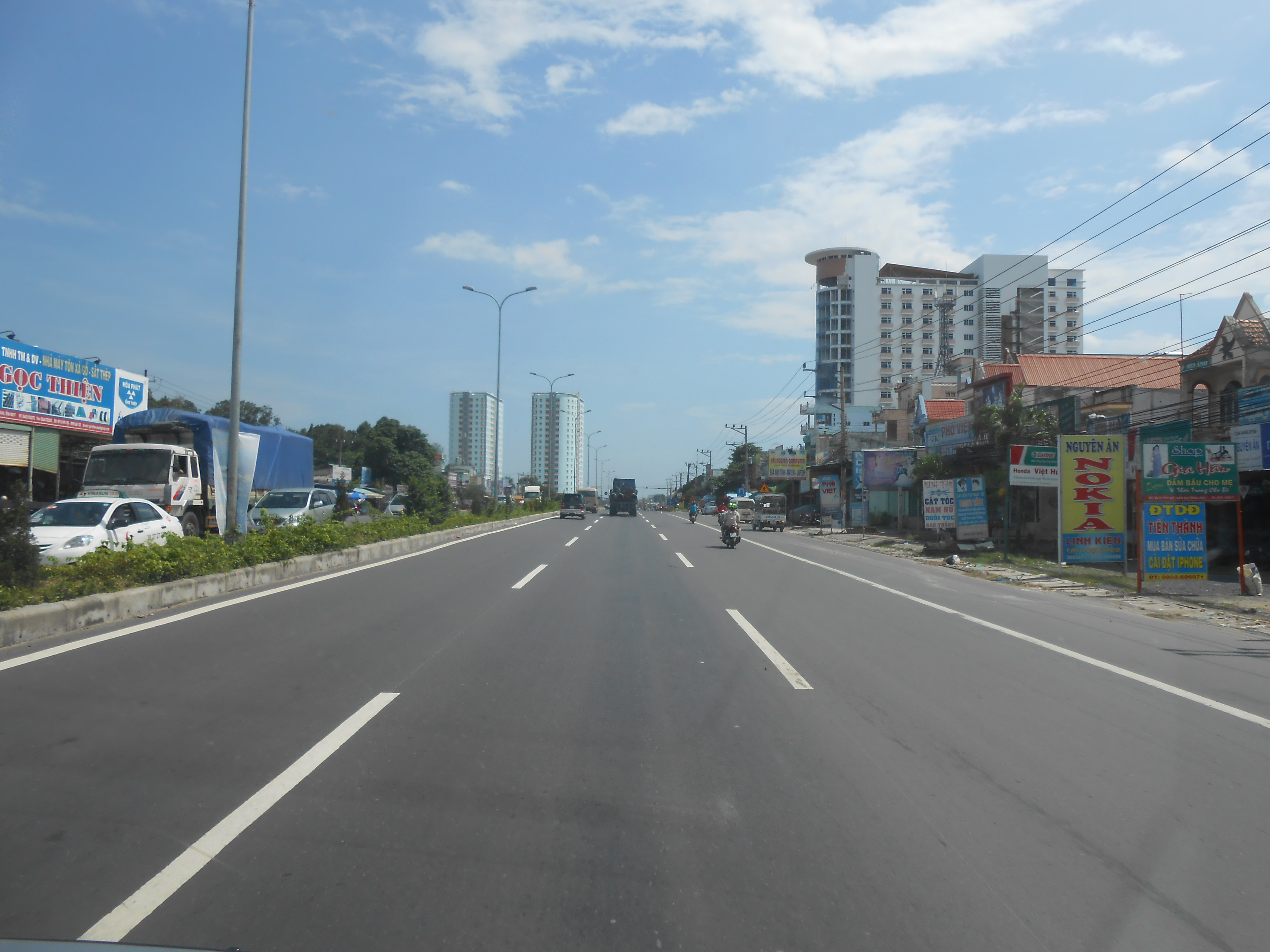 Phú Mỹ Town, Bà Rịa-Vũng Tàu Provinc on National Route 51